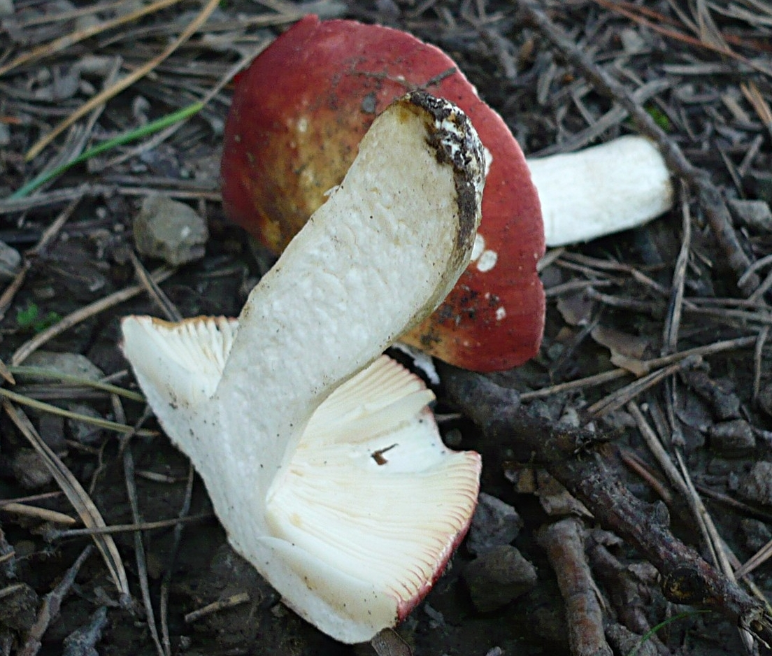 Image "Russula_amarissima.jpg" was cut.